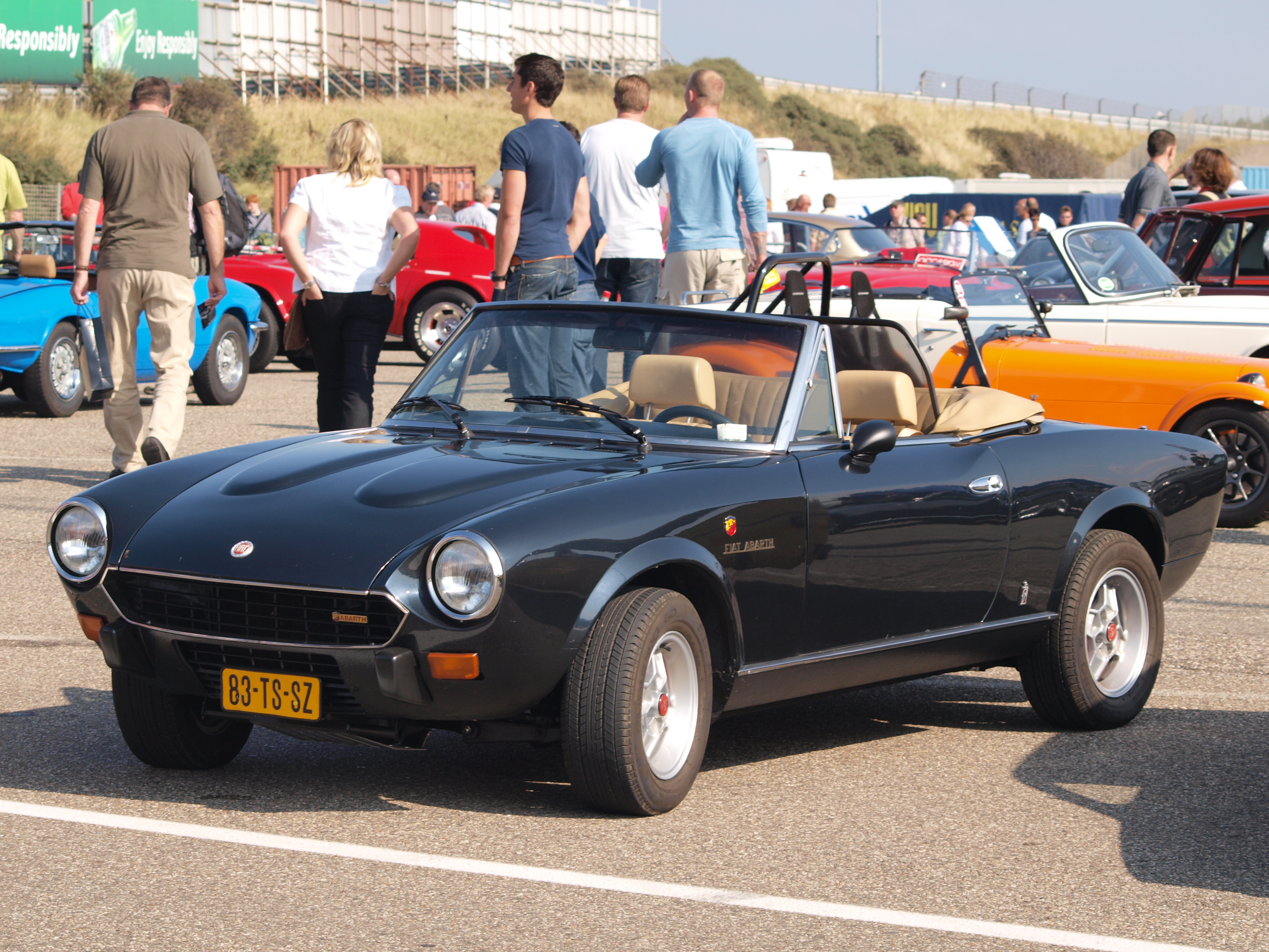 Photographed at the Nationaal Oldtimer Festival Zandvoort 2009, The Netherlands. OLYMPUS DIGITAL CAMERA